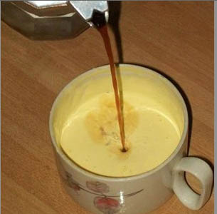 L'uovo Sbattuto con cafe: a simple Italian breakfast tradition.